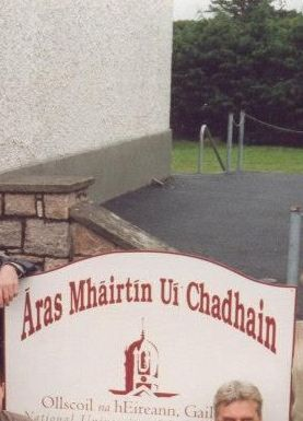 Áras Mháirtín Uí Chadhain (The Máirtín Ó Cadhain Building)